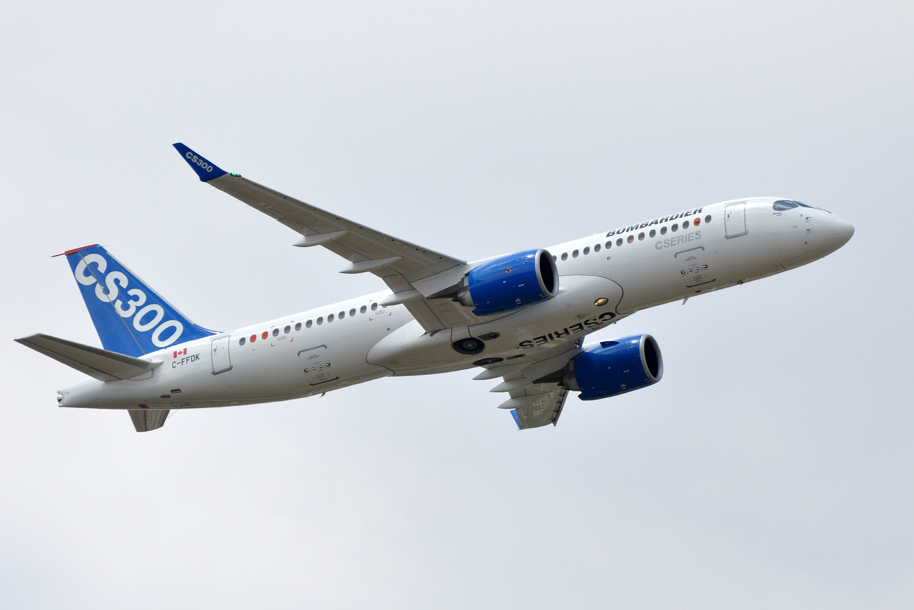 MSN 55001 Bombardier BD-500-1A11 CS300 BOMBARDIER AEROSPACE LBG AIRPORT SIAE 2015 first CS300 prototype, rg 03/11/14, ff 02/27/15